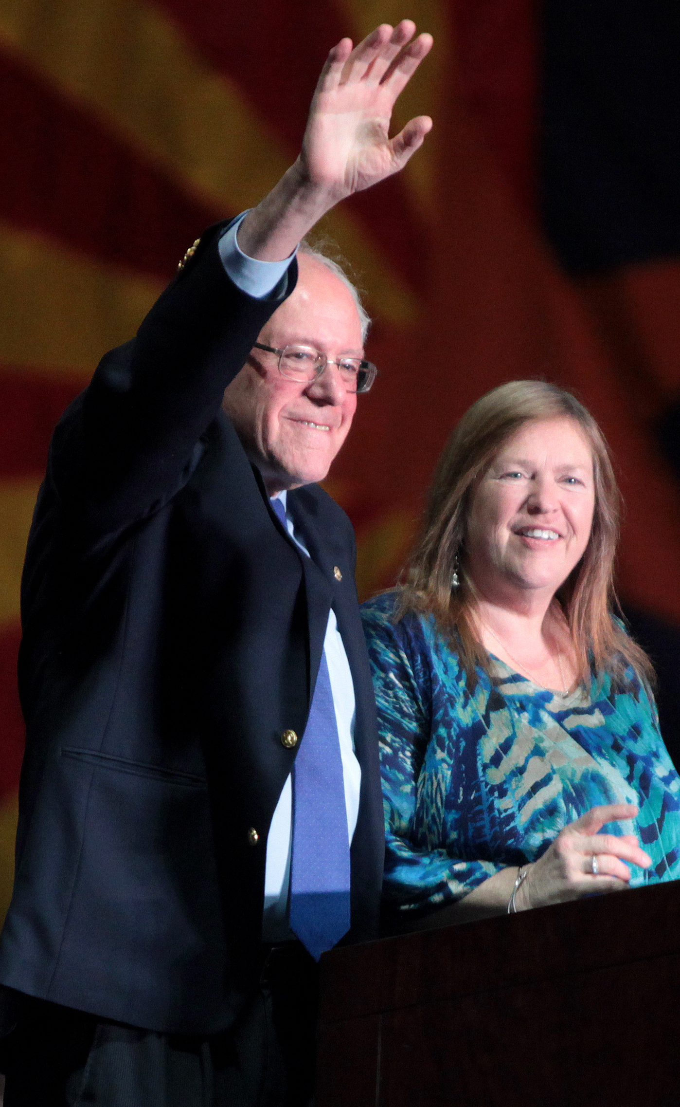 U.S. Senator Bernie Sanders and his wife, Jane Sanders, speaking with supporters at a campaign rally at the Phoenix Convention Center in Phoenix, Arizona.